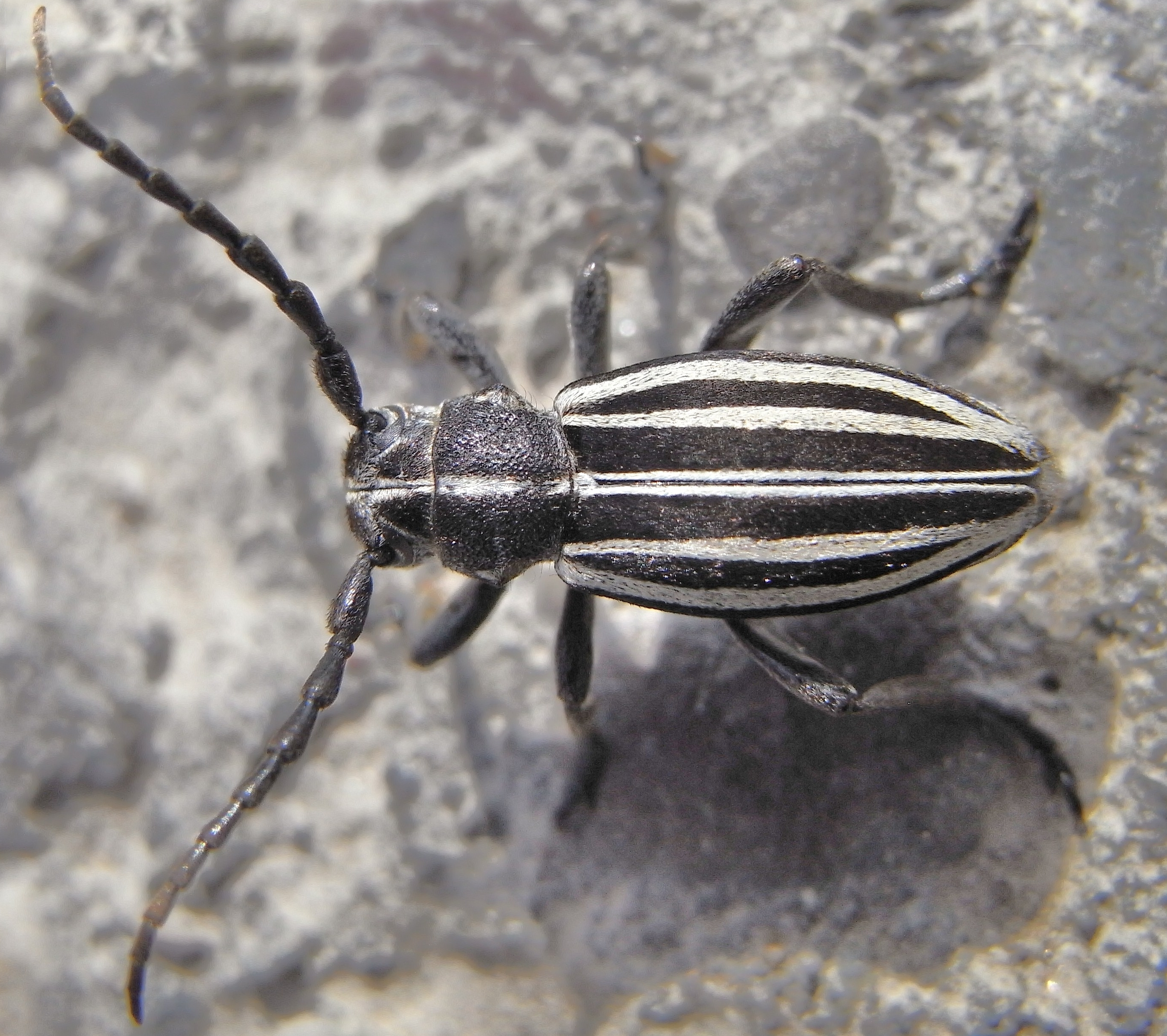 Pedestredorcadion scopolii from Hungary at 2010-05-09 near the border to Kroatia and Serbia